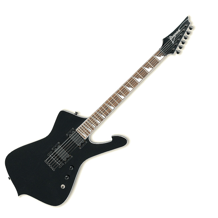 Ibanaez Iceman Guitar